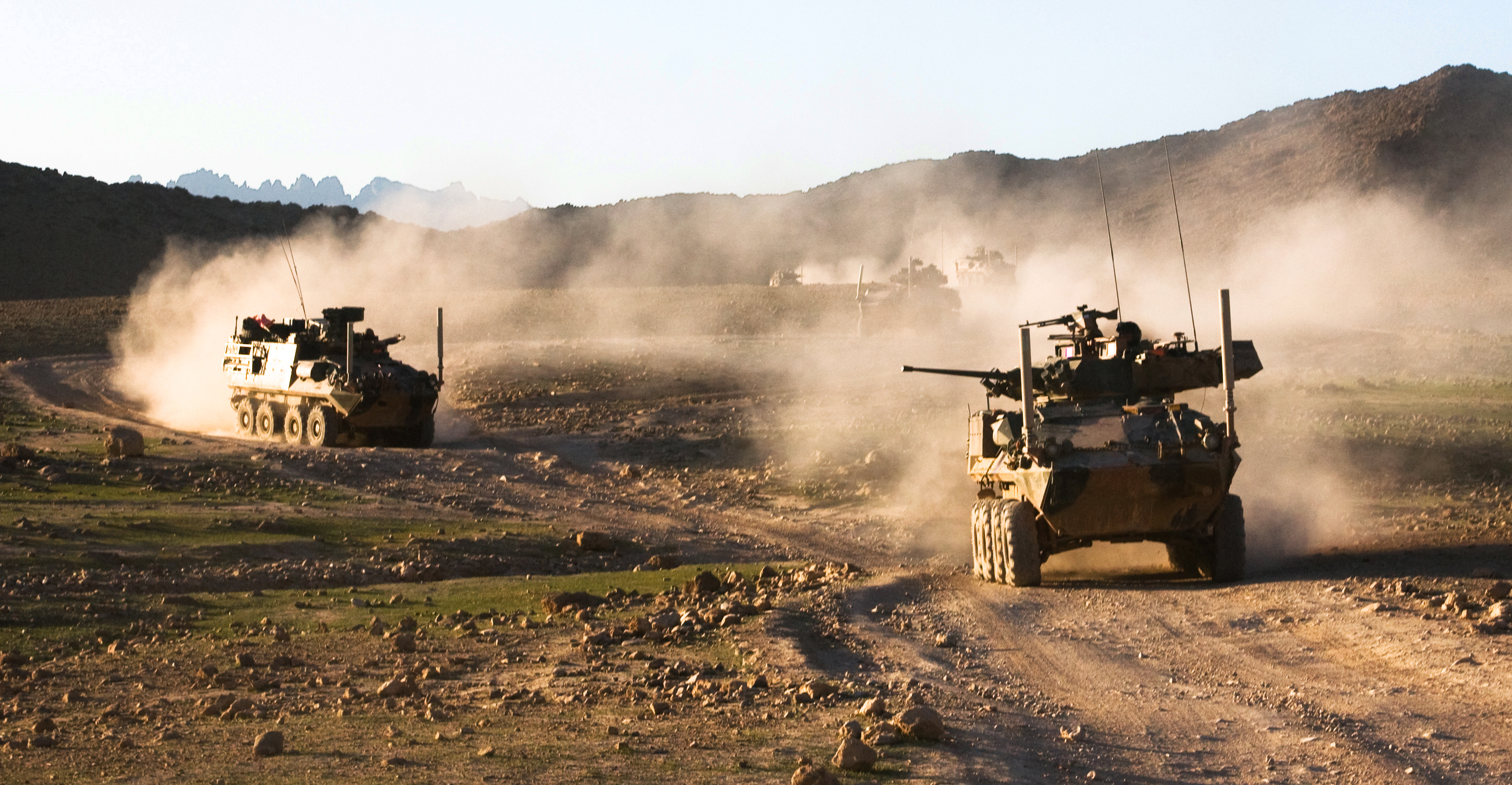 TANGI VALLEY, Afghanistan--Australian Service Light Armoured Vehicles drive through Tangi Valley, Afghanistan, March 29. The terrain of Tangi Valley is notoriously rough, but the ASLAV maneuvers across it with ease, said Australian Army Lt. McLeod Wood, a troop leader for 2nd Cavalry Regiment, Mentoring Task Force 2, Combined Team Uruzgan.